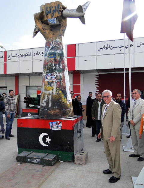 Ambassador Cretz Stands by Fist Crushing a U.S. Fighter Plane Sculpture in Misratah.